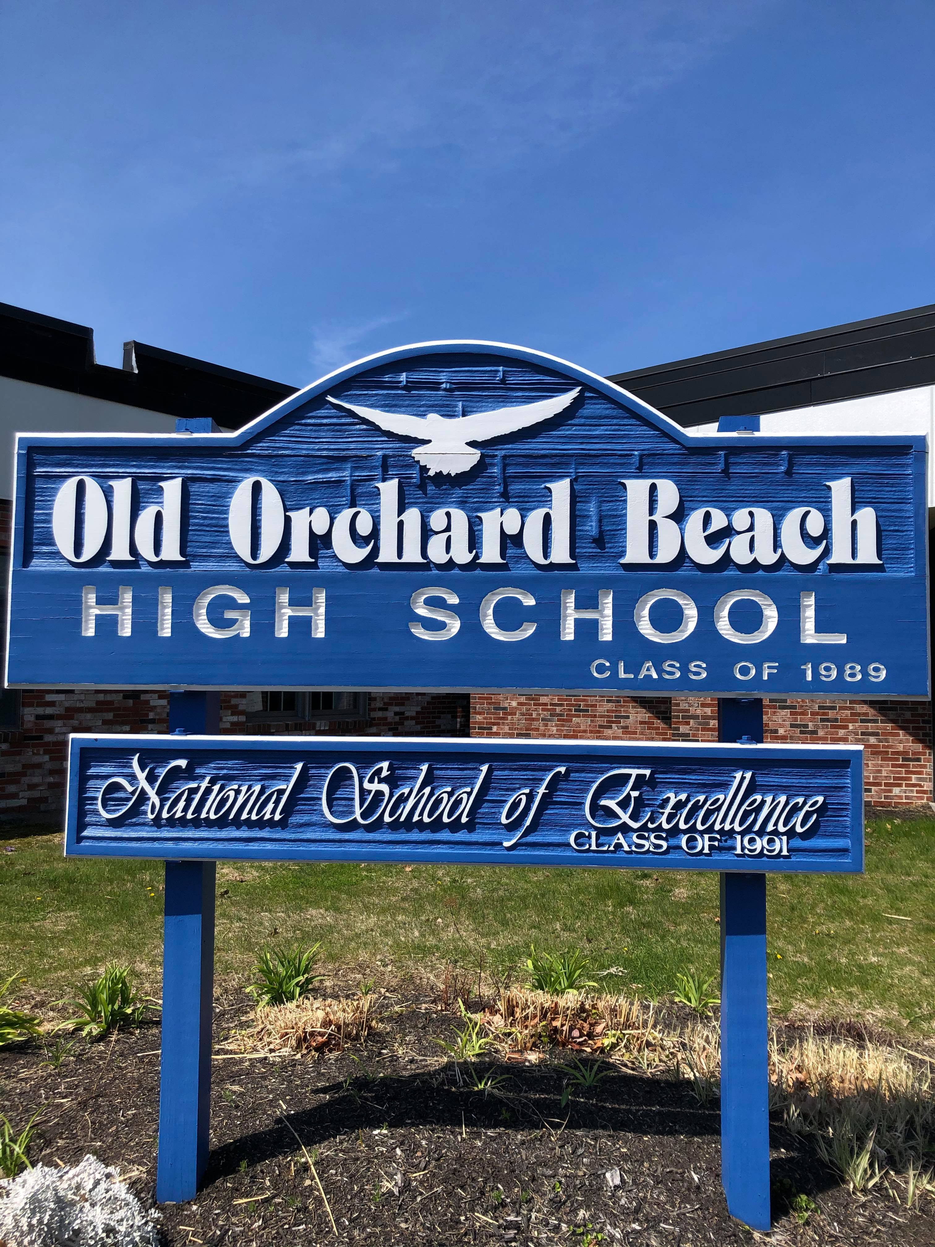 Old Orchard Beach High School Exterior Sign